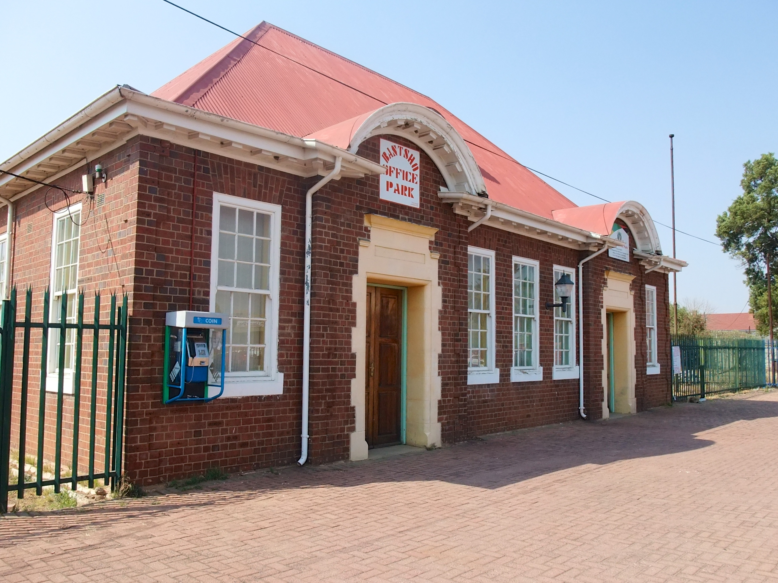 Old Police Station, Maugham Road, Randfontein This media shows a South African Protected Site with SAHRA file reference 9/2/260/0004.